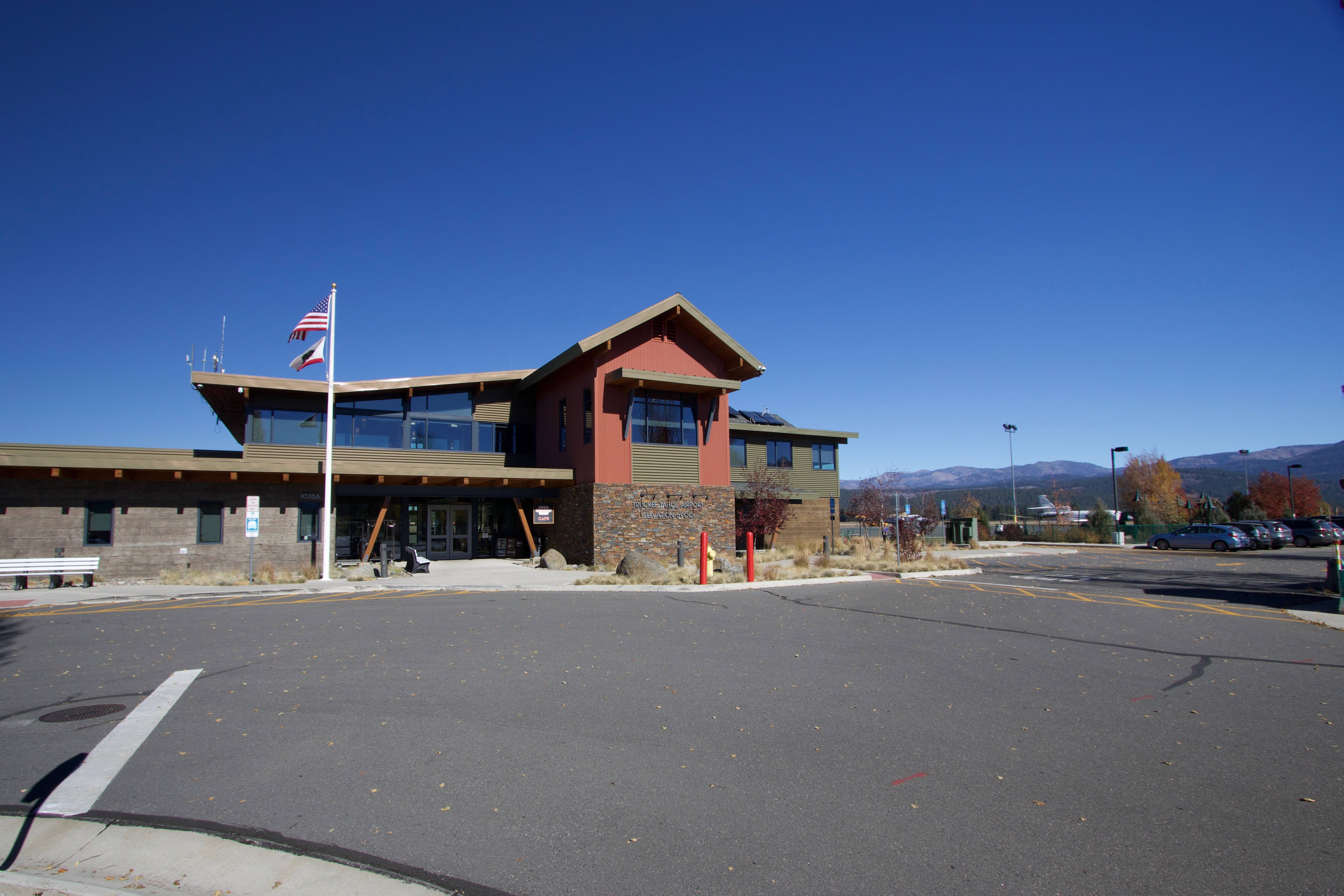 Main building at Truckee Tahoe Airport